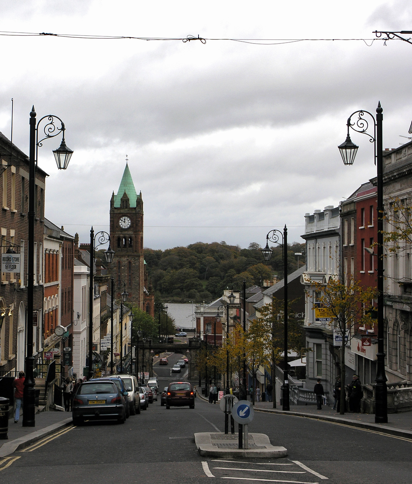 Shipquay Street Derry, taken by me SeanMack, Oct 2005.